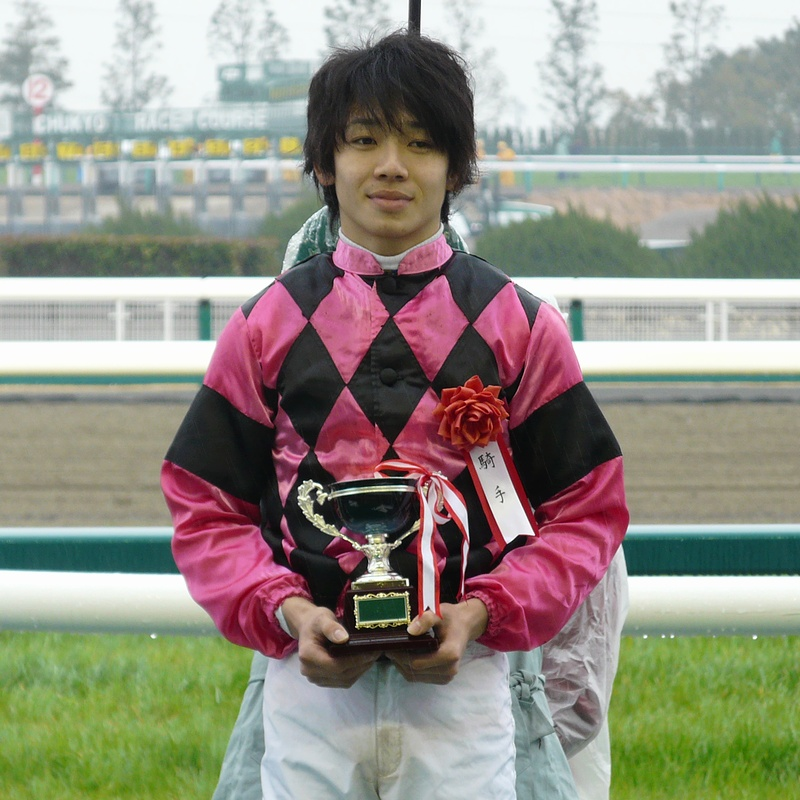 Kohei-Matsuyama20120304